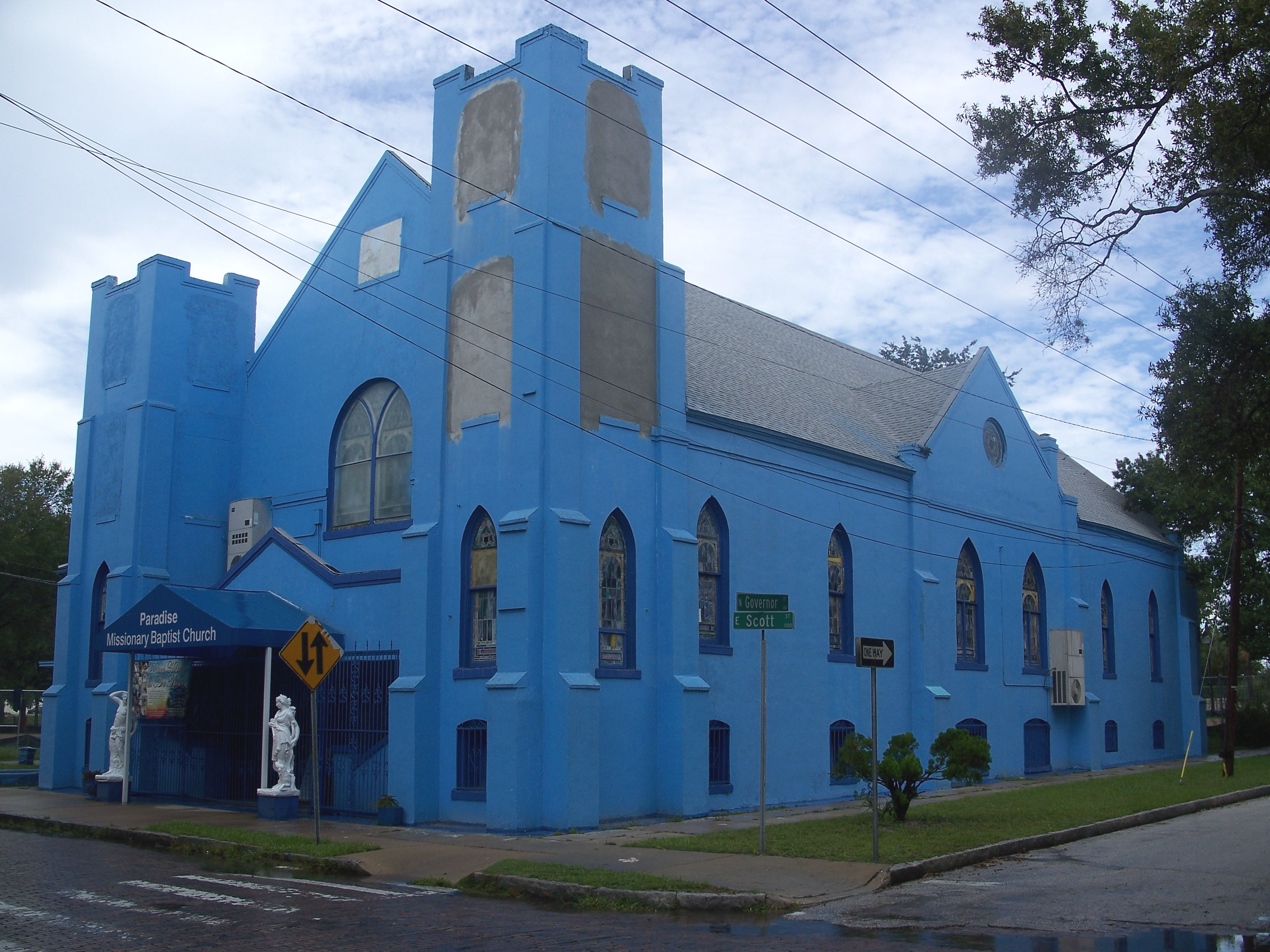 Paradise Missionary Baptist Church, in Tampa, Florida